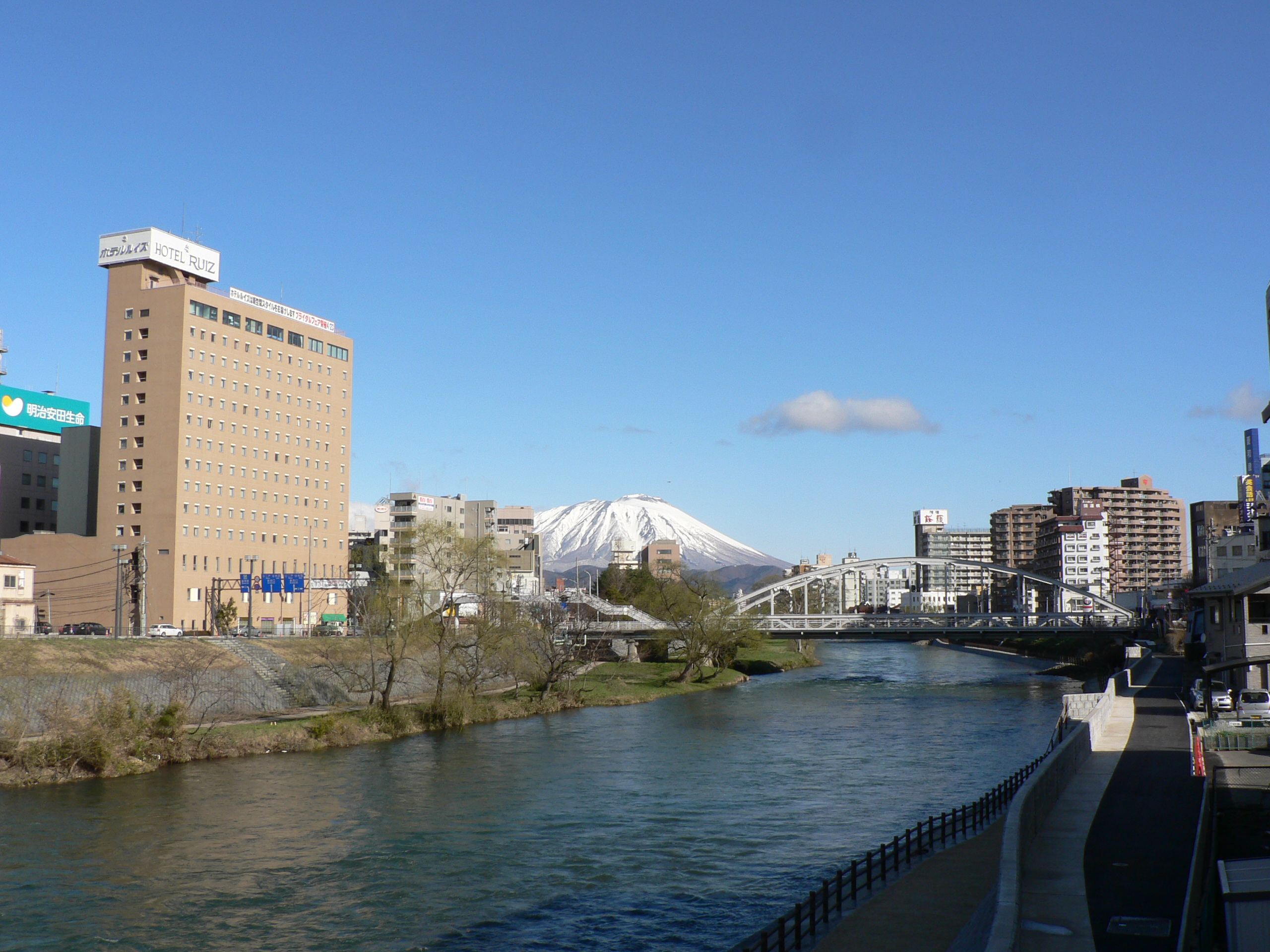 Kitakami river in Morioka, Iwate pref., Japan.